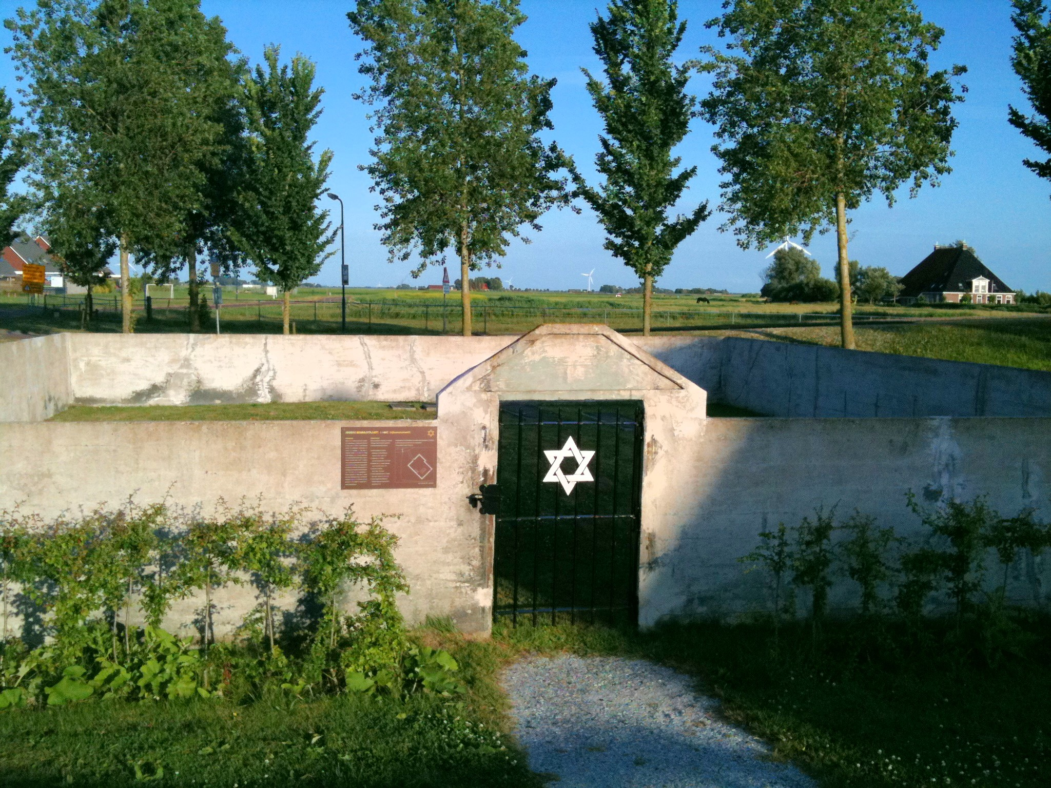 Jewish cemetery on the Haerekuenst in Workum, Friesland, Netherlands.